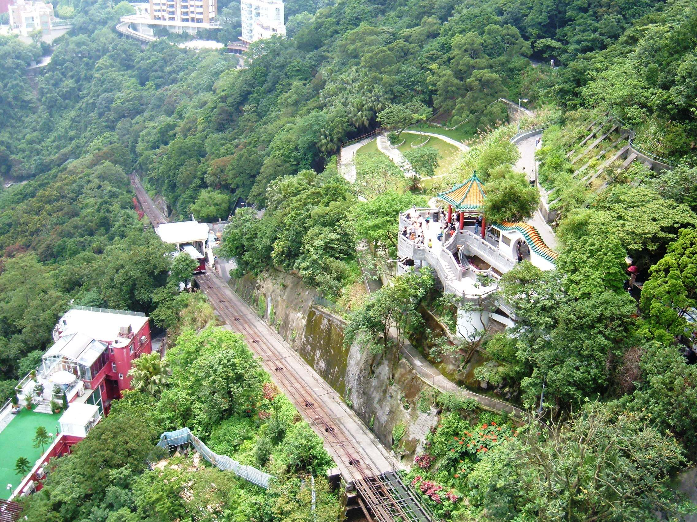 The Peak Tram route as seen from Victoria Peak, Hong Kong.